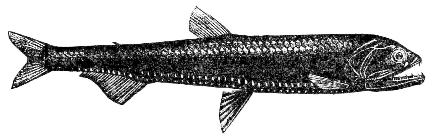 Photichthys argenteus